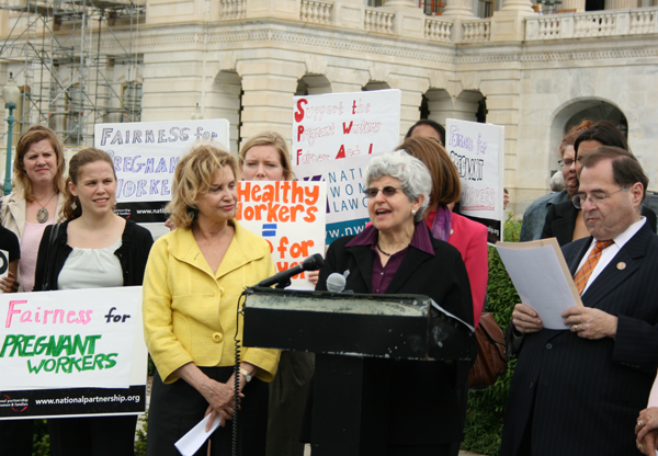 National Partnership for Women & Families Senior Advisor Judith Lichtman speaks at the Pregnant Workers Fairness Act press conference. House Triangle, U.S. Capitol.